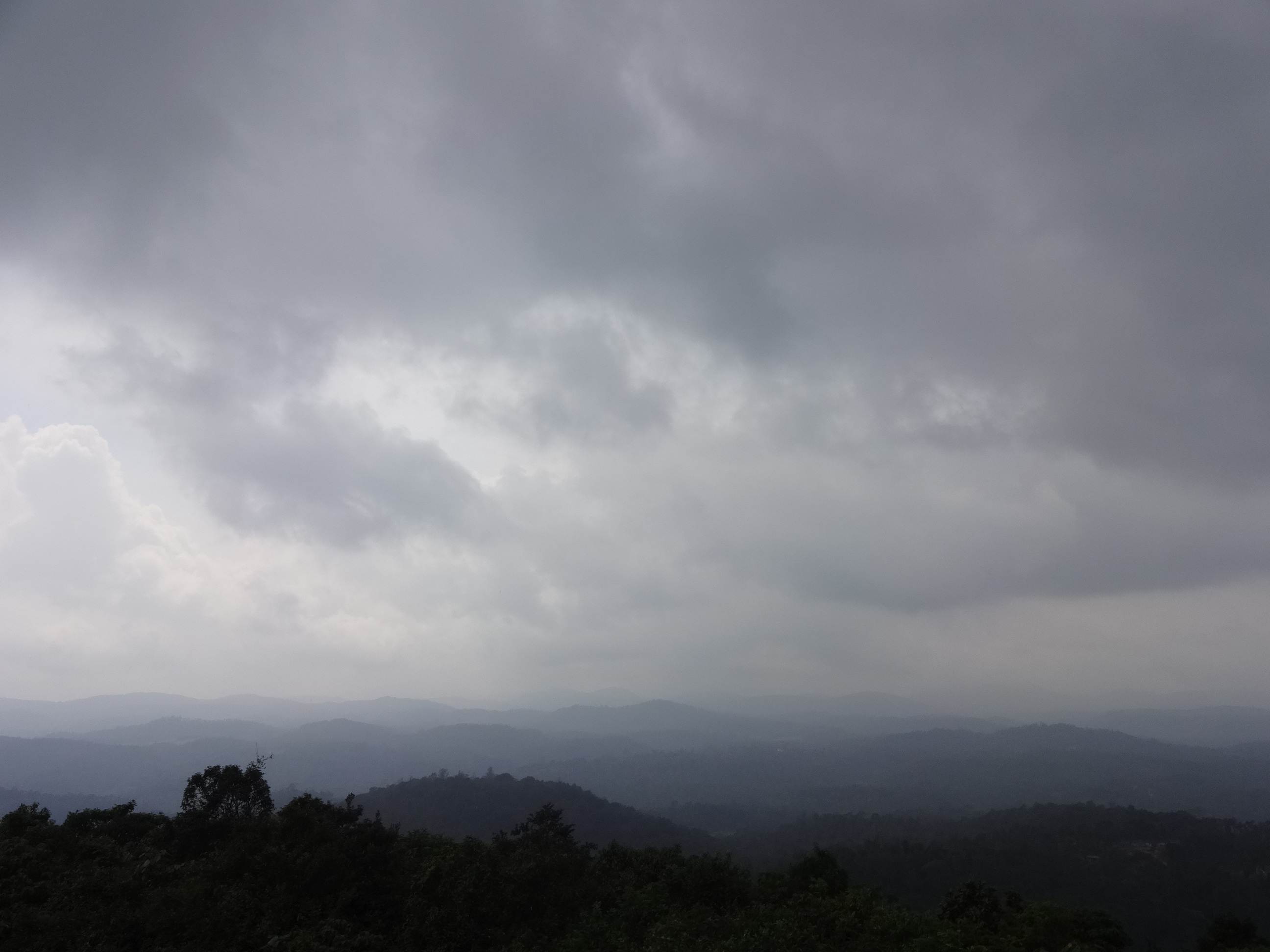 western ghats with running mountains...